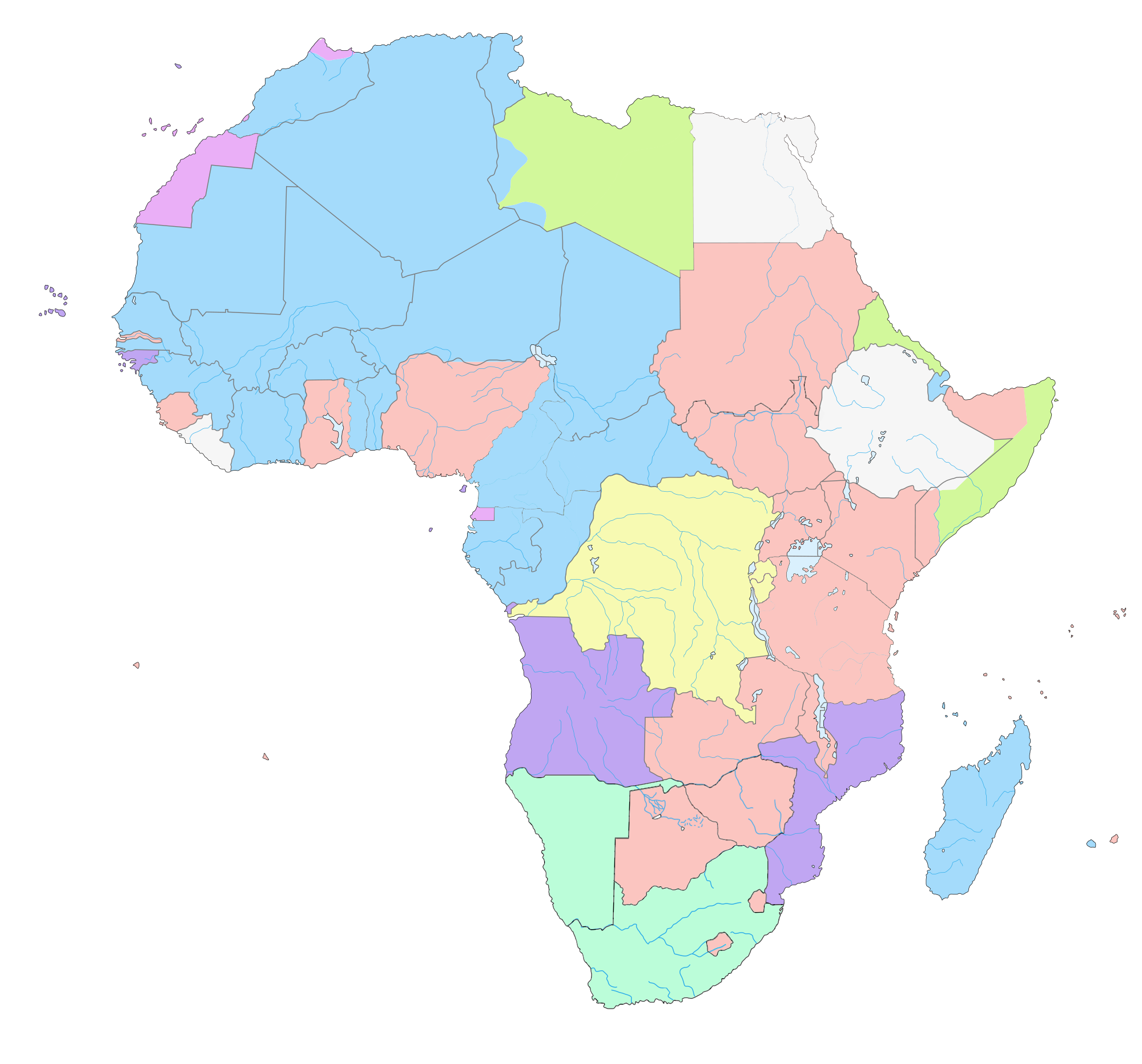 Map of Colonial Africa in 1930 Belgium France Germany Great Britain Italy Portugal Spain Independent states